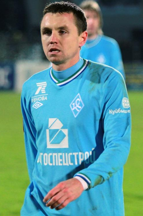 Anton Bober with FC Krylia Sovetov in 2012.